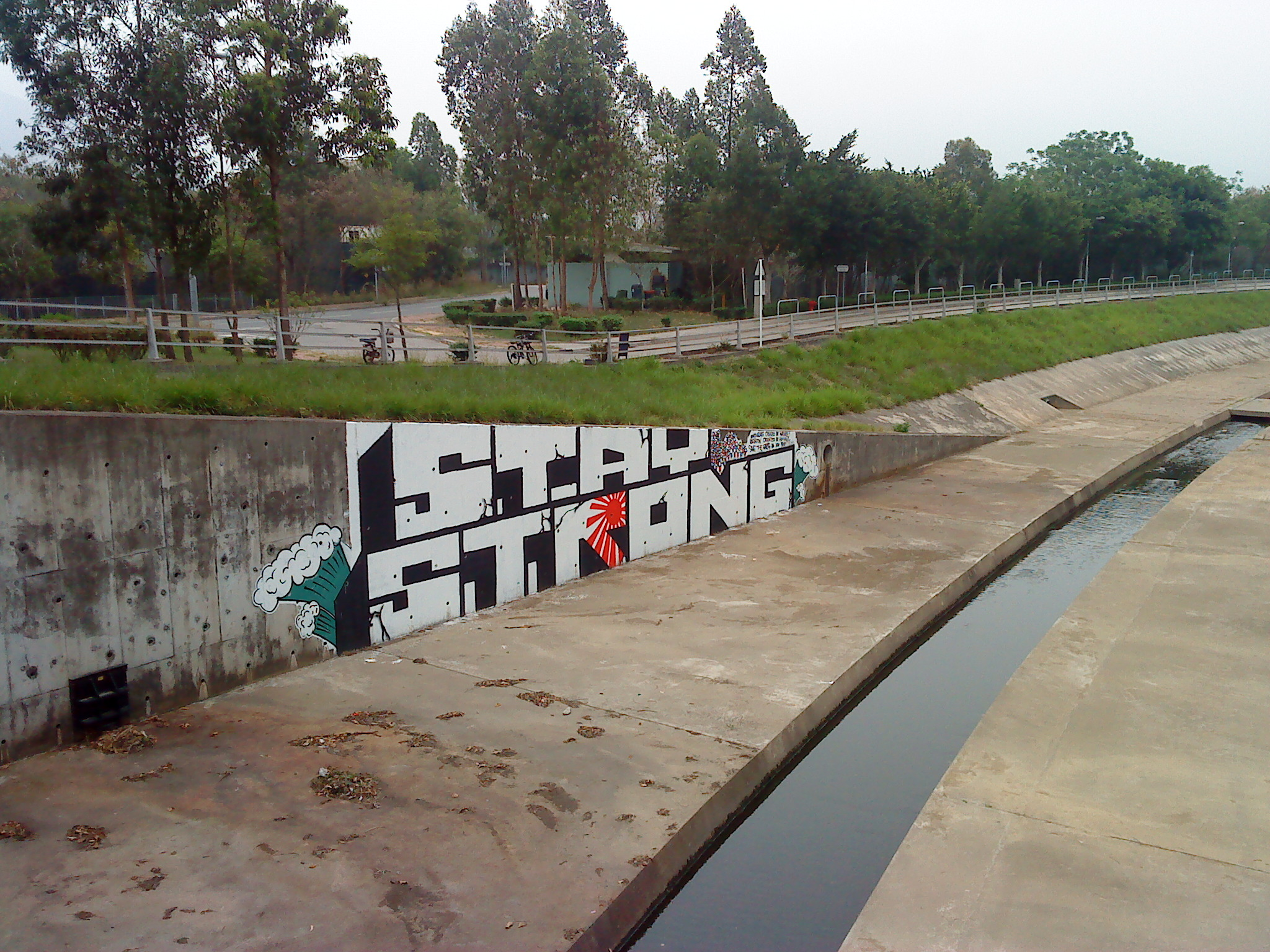 Kam Tin River near Tung Wui Road, Kam Shui N Road